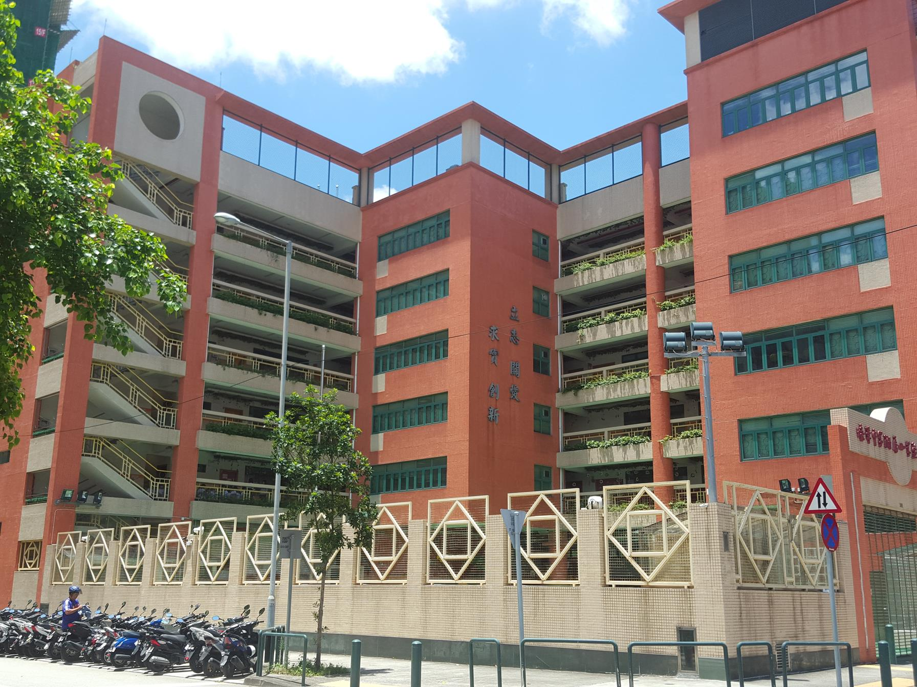 Pui Va Middle School